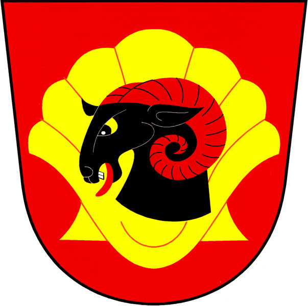 Municipal coat of arms of Želetice village, Znojmo District, Czech Republic.